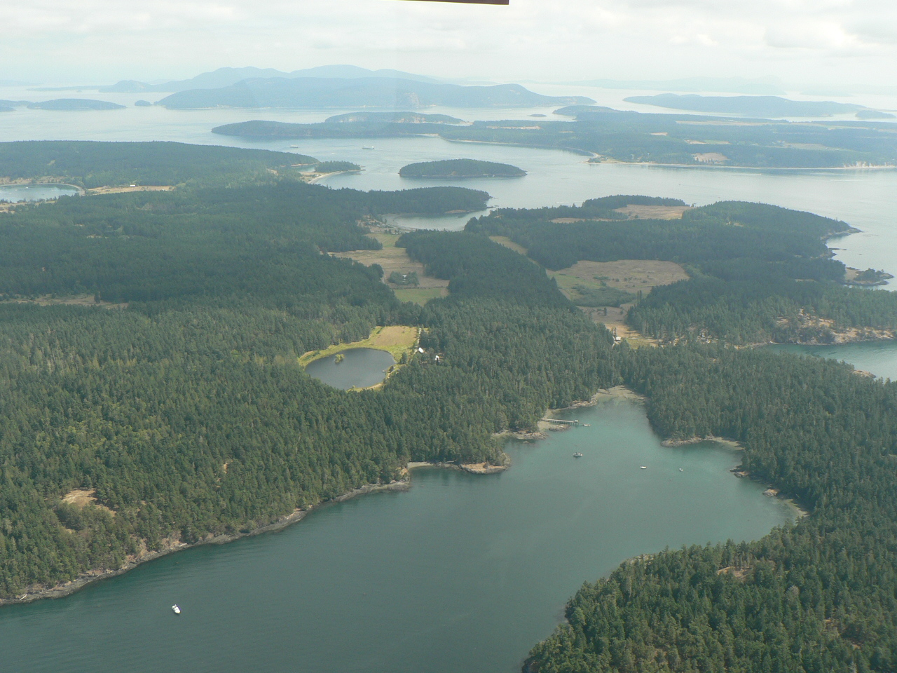 SW corner of Shaw Island